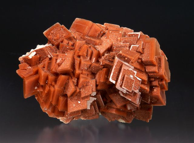 Calcite Locality: Tsumeb Mine (Tsumcorp Mine), Tsumeb, Otjikoto (Oshikoto) Region, Namibia (Locality at ) A shocking calcite specimen where the crystals are so heavily included by hematite that they look almost like a different species entirely. High lustre and pristine condition make this a unique and unusually fine specimen, especially as calcites of this size and condition are even more uncommon from Tsumeb than from other localities. It was purchased from Charlie Key in 2000. 14 x 10 x 4 cm This Photo was Photo of the Day - 24th Apr 2006